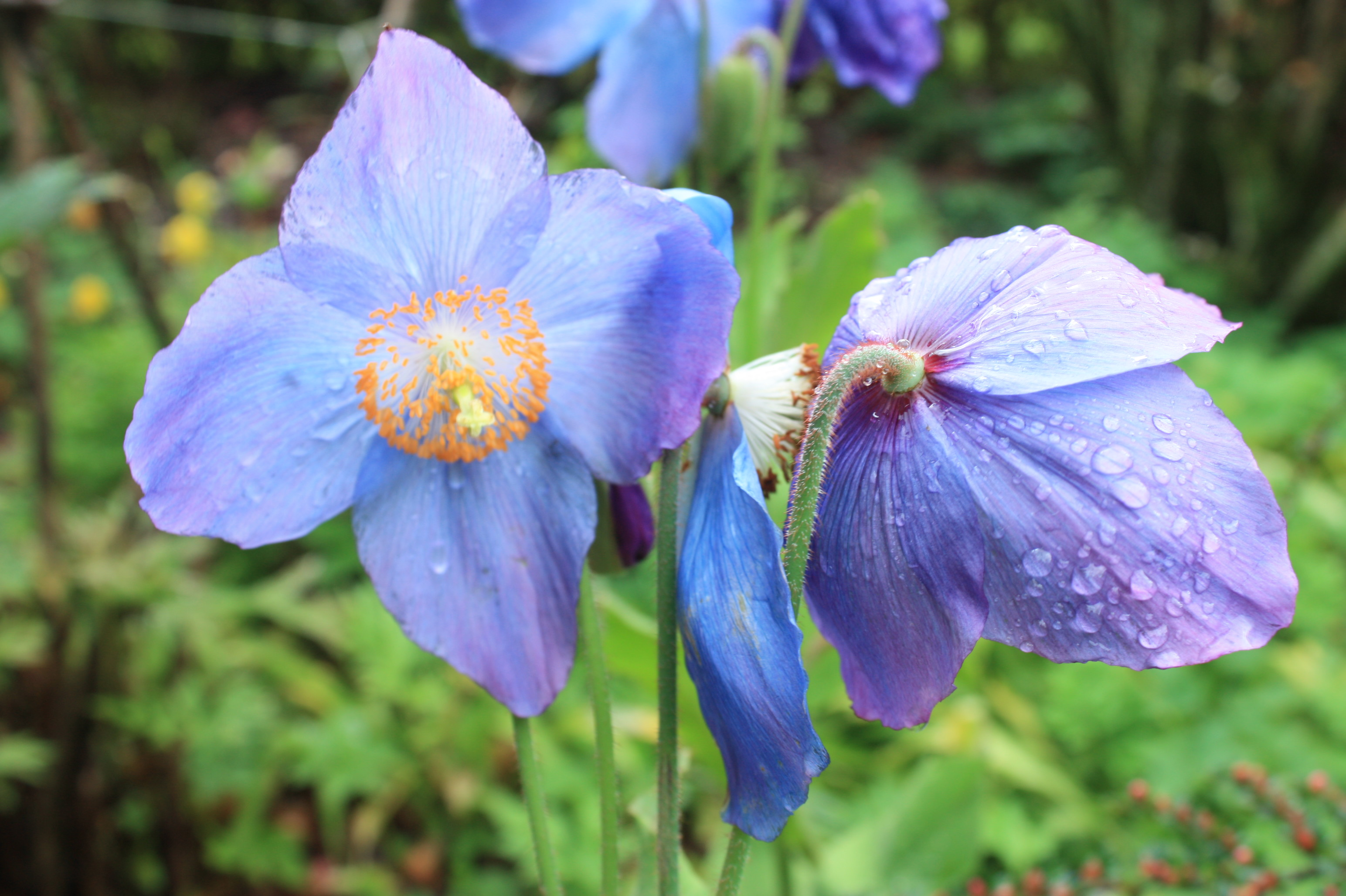 Himalayan Blue Poppy